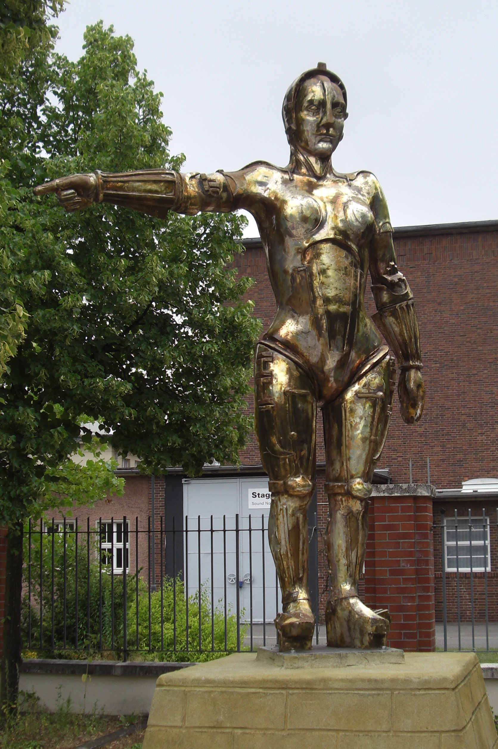 “Maria” from “Metropolis” movie. Statue in Babelsberg, Germany